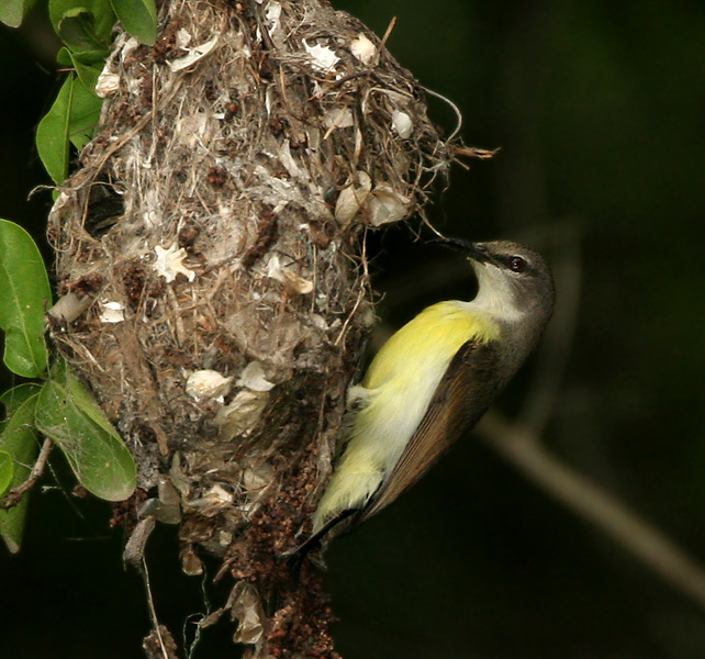 Purple-rumped Sunbird Leptocoma zeylonica in Hyderabad , India.